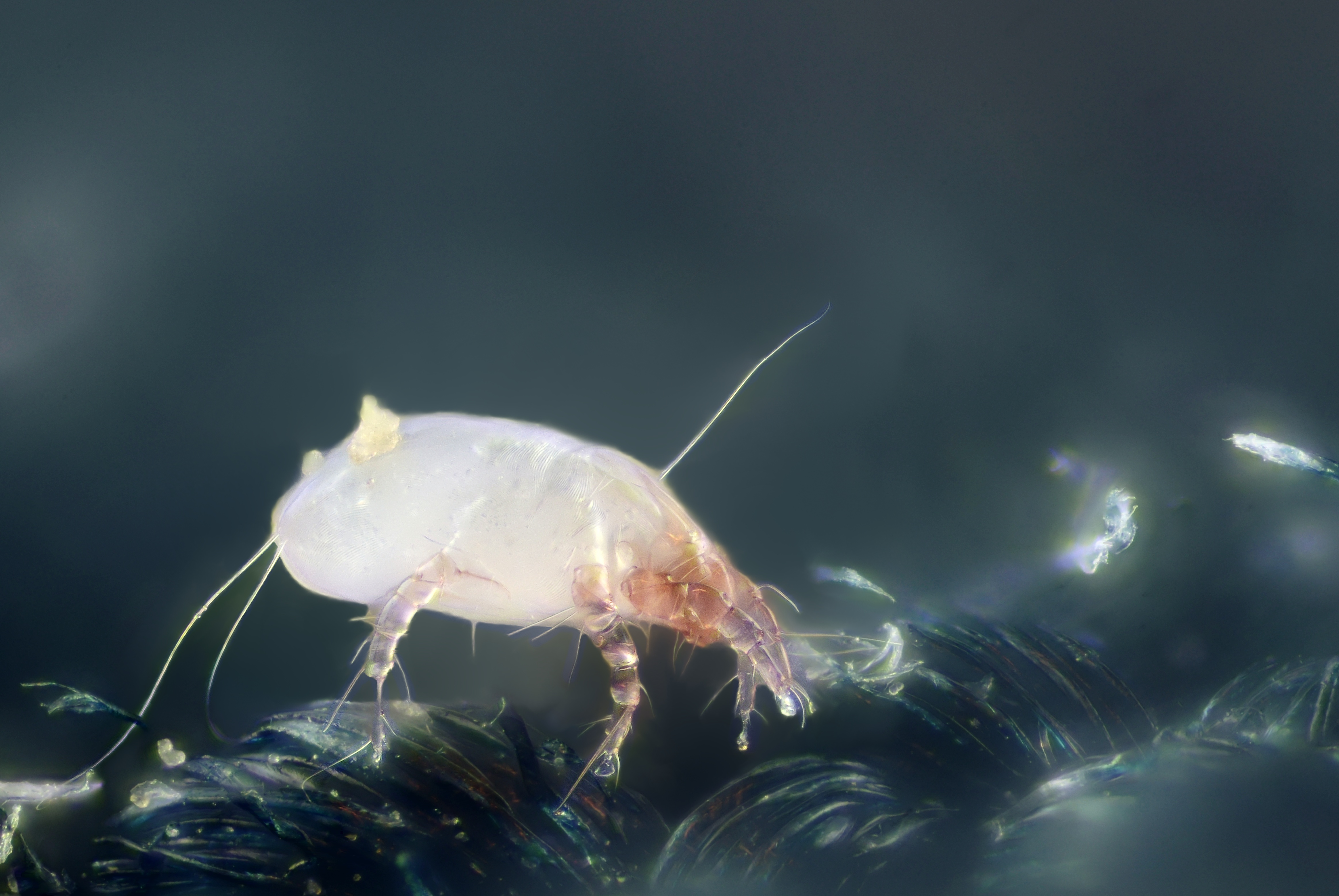 House dust mite (Dermatophagoides pteronyssinus) . More information here: Scale: mite length = 0.3 mm Technical settings: - focus stack of 42 images This image was created with Hugin - microscope objective (Nikon M Plan 20x 210/0.4 ELWD) on bellow